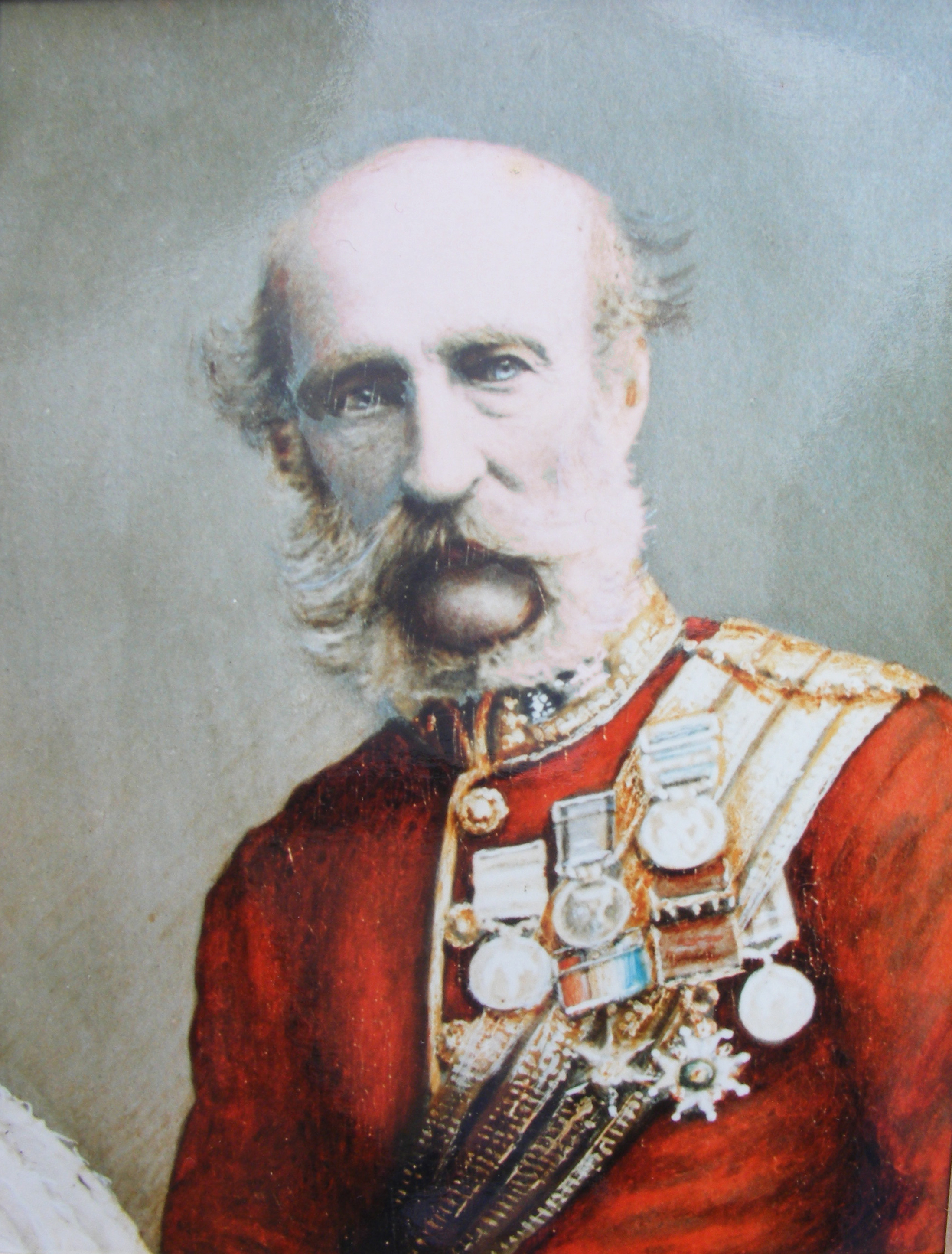 Painting of Major General George Campbell of Inverneill